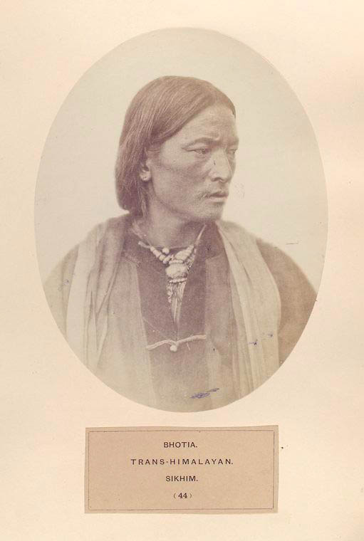 This image is from the book, The People of India, a series of photographic illustrations, with descriptive letterpress, of the races and tribes of Hindustan, originally prepared under the authority of the government of India, and reproduced. by J. Forbes Watson and John William Kaye between 1868 - 1875.